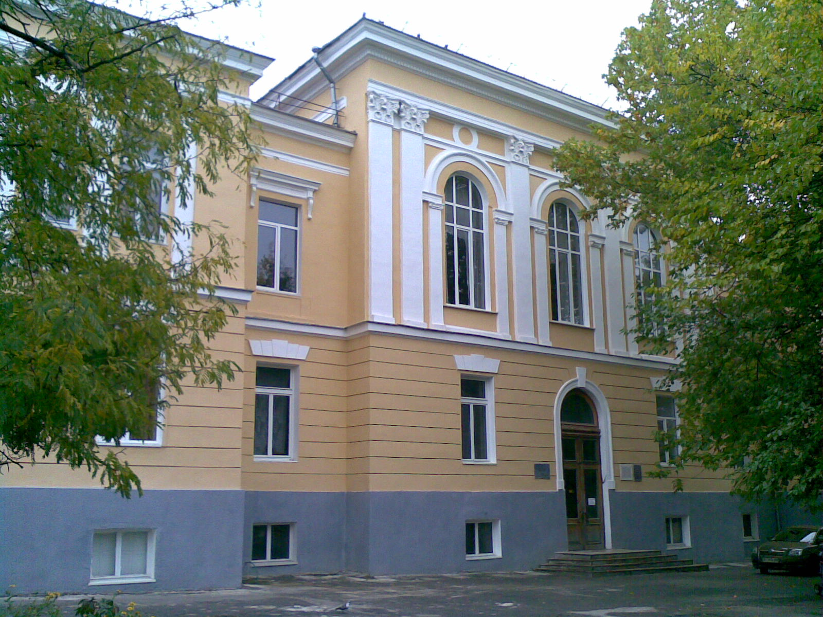 Kherson-28102009(024).